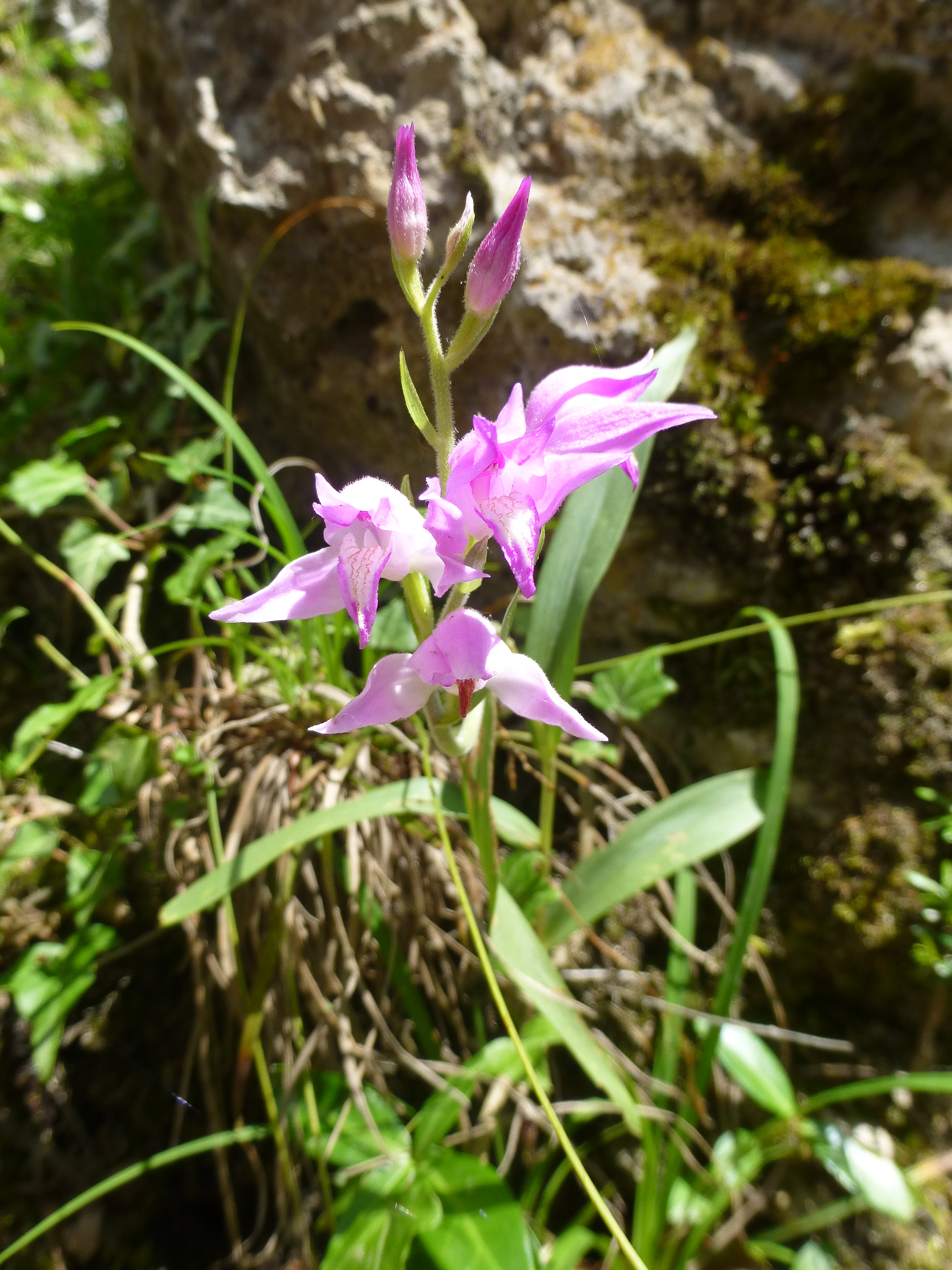 Cephalanthera rubra